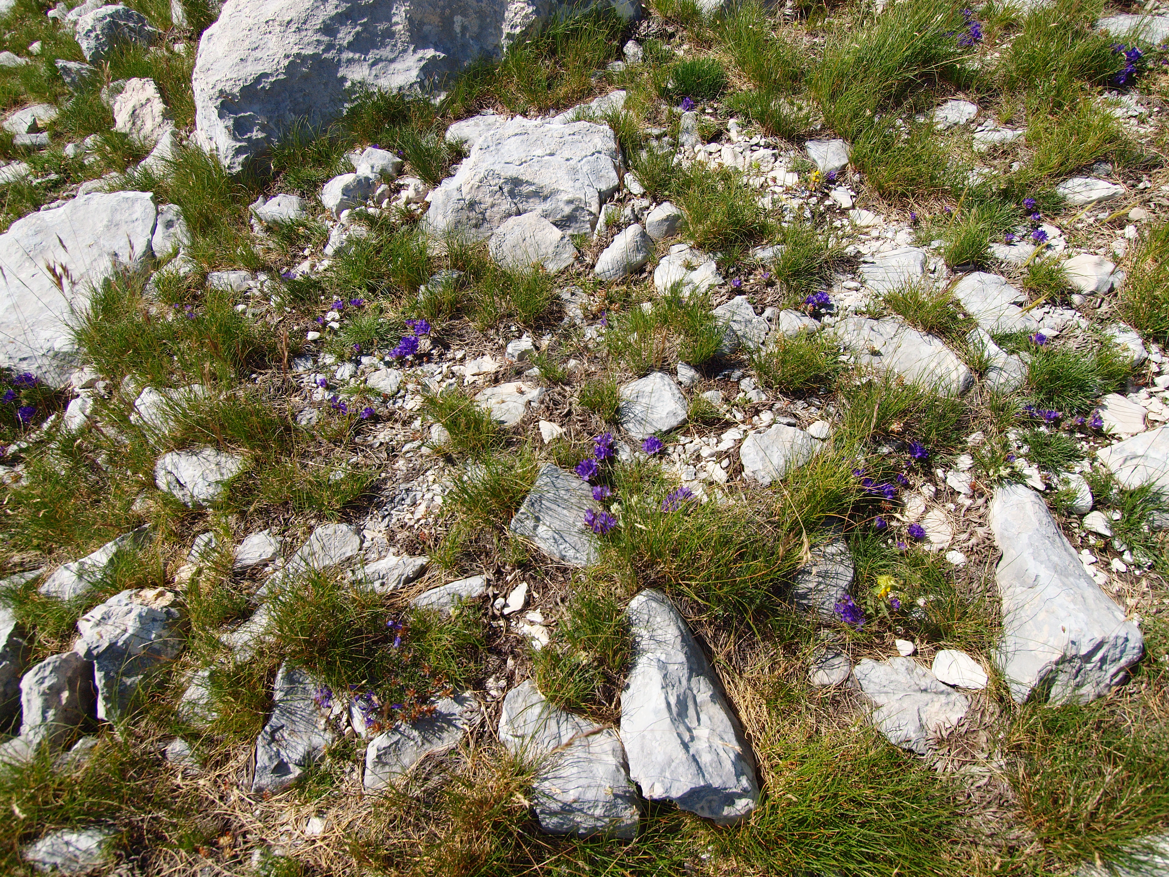 Alpiner Kalkrasen der Ordnung Oxytropidion dinaricae mit den Assoziationen Carici-Edaianthetum caricini und Edraiantho -Festucetum pacicianae